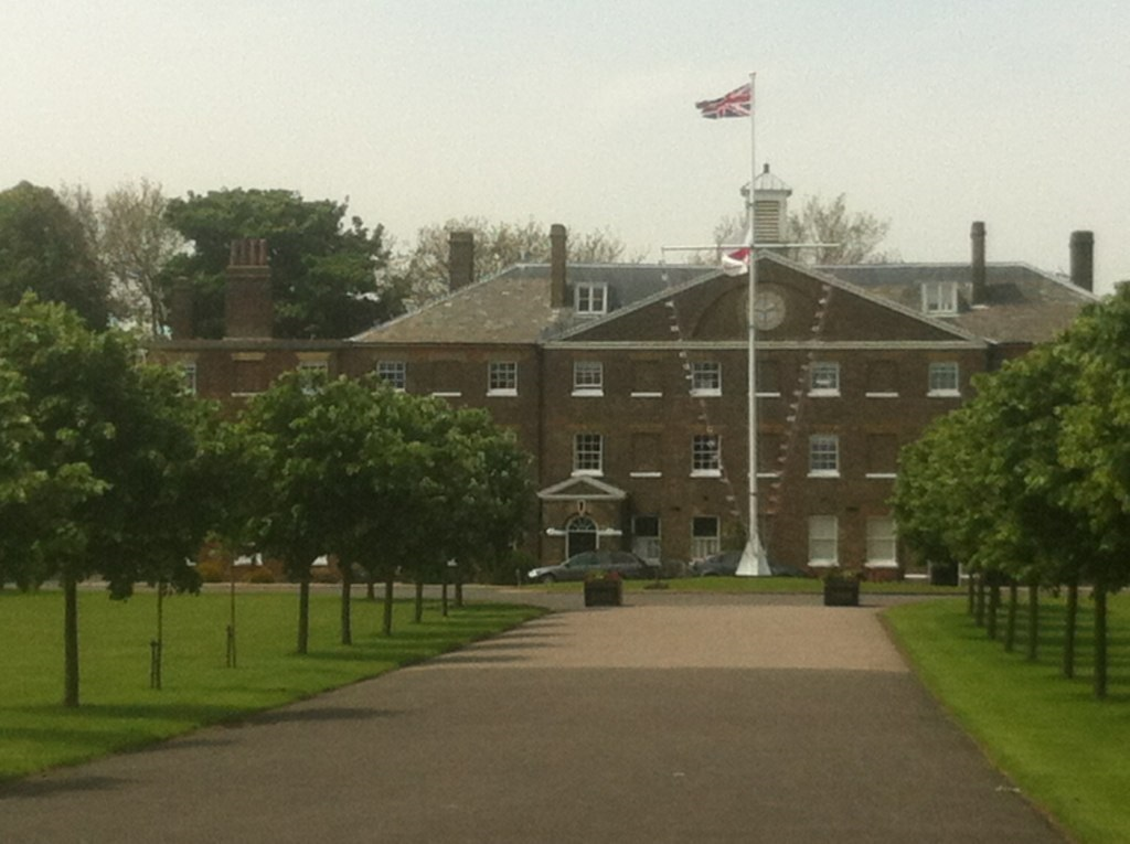 Officers' Mess, Royal Marine South Barracks, Deal